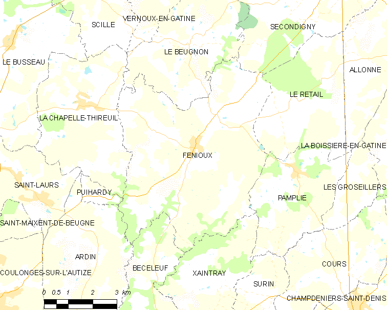 Map of French municipality Fenioux